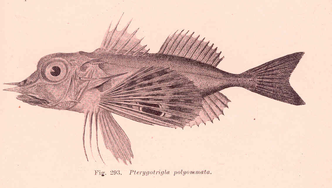 Pterygotrigla polyommata Subject: Pterygotrigla, Triglidae Tag: Fish